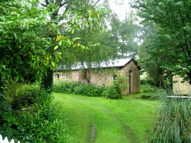 Trusham Railway Station This shows the back view of the disused station, from the road. It is now a private residence.